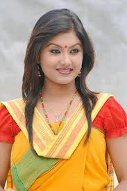 Koch Rajbongshi Traditional Costume